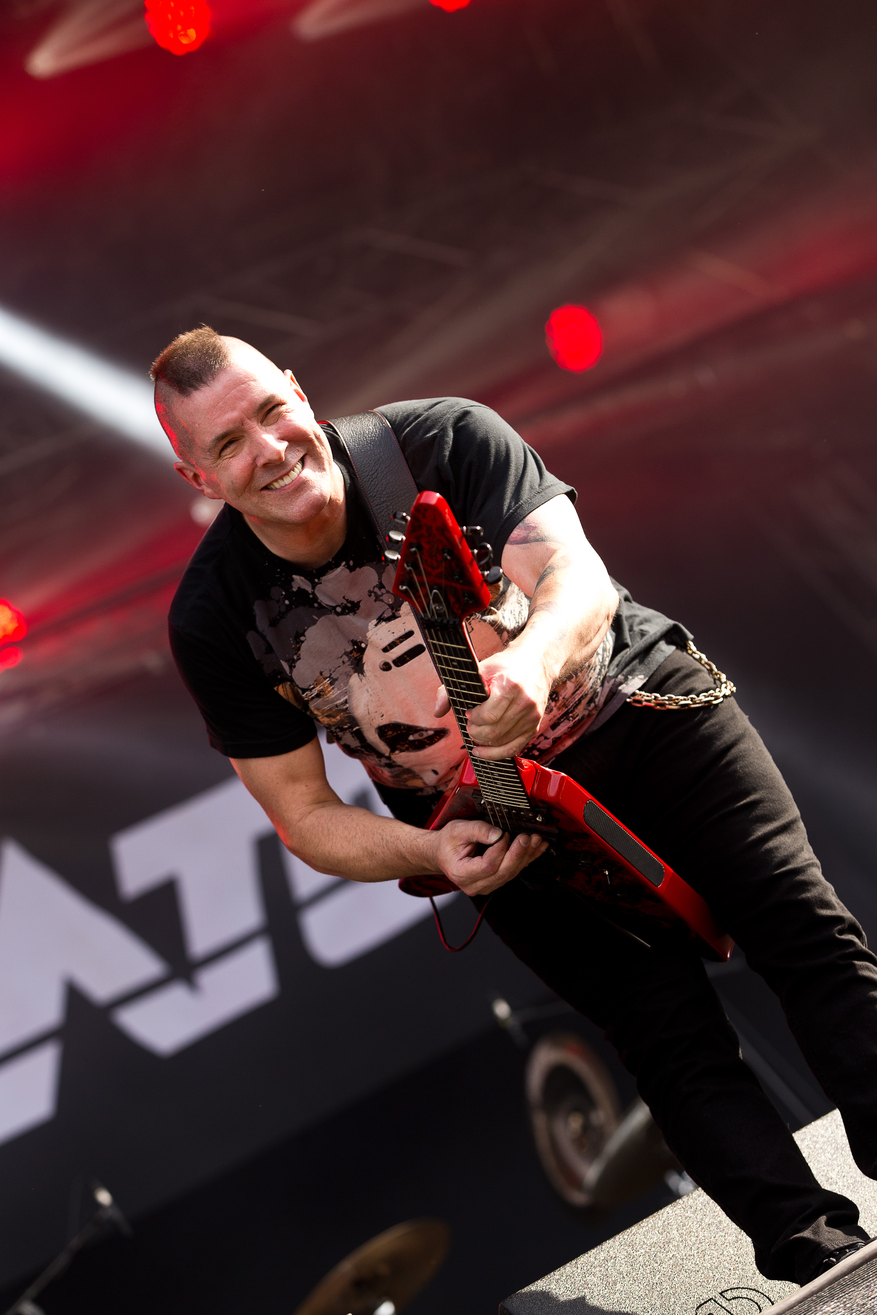 The Canadian thrash metal band Annihilator at the Rockharz Open Air 2016 in Ballenstedt/Germany.